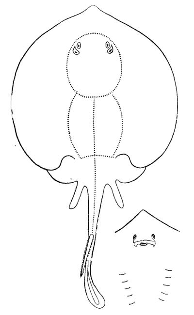 Drawing accompanying the original scientific description of the round stingray (Urobatis halleri)